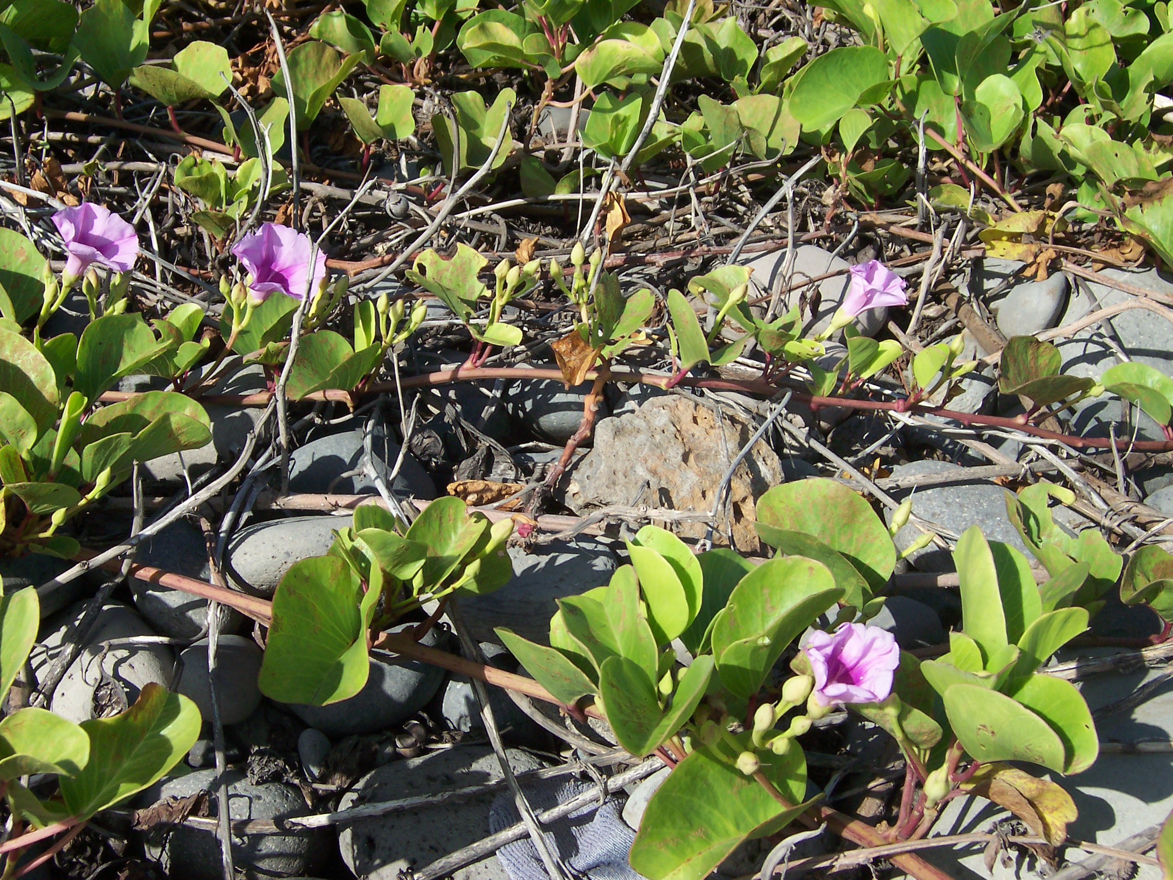 Ipomoea pes-caprae, on the pebble shore of Saint-Denis (Réunion)